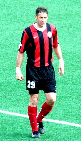 Martin Kushev in action FC Amkar